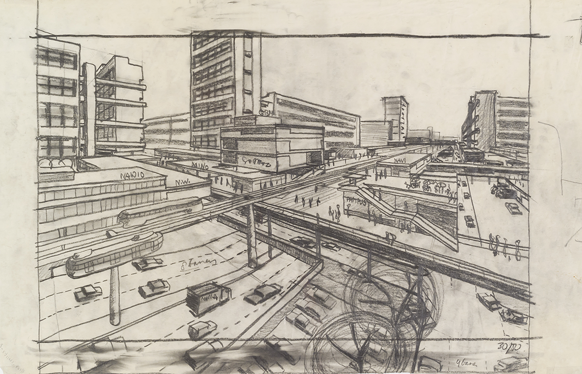 Van den Broek en Bakema. Uitbreiding Pampus, 1965. Collectie Het Nieuwe Instituut, BROX 1411 t1 Van den Broek en Bakema. Pampus expansion plan, 1965. Collection Het Nieuwe Instituut, BROX 1411 t1 200 tekeningen, maquettes en foto's uit de collectie van Het Nieuwe Instituut zijn dit najaar te zien in De Hermitage in St. Petersburg. Samen met een aantal bruiklenen van hedendaagse architectenbureaus vormen ze de tentoonstelling ‘Architecture the Dutch Way 1945-2000’, over de vormgeving van Nederland na de Tweede Wereldoorlog. Op Flickr Commons een uitgebreide selectie uit de stukken die in september op transport gaan naar Rusland. 200 drawings, models and photographs from the collection of The New Institute will be on show this autumn at the Hermitage in St. Petersburg. Together with several items on loan from contemporary architectural firms, they will form the exhibition Architecture the Dutch Way 1945-2000 which is about the design of the Netherlands after the Second World War. On Flickr Commons we present a selection of pieces that will be leaving for Russia in early September.